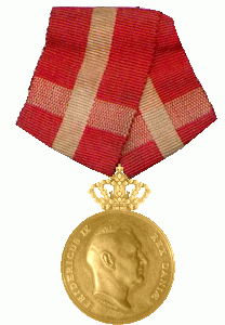 Gouden Medaille van Verdienste met Kroon Fortjenstmedaljen i Guld med Krone Golden Medal of Merit with Crown, Danmark